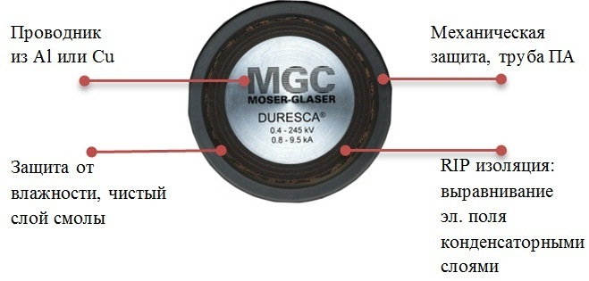 Сross-section of Duresca busbar